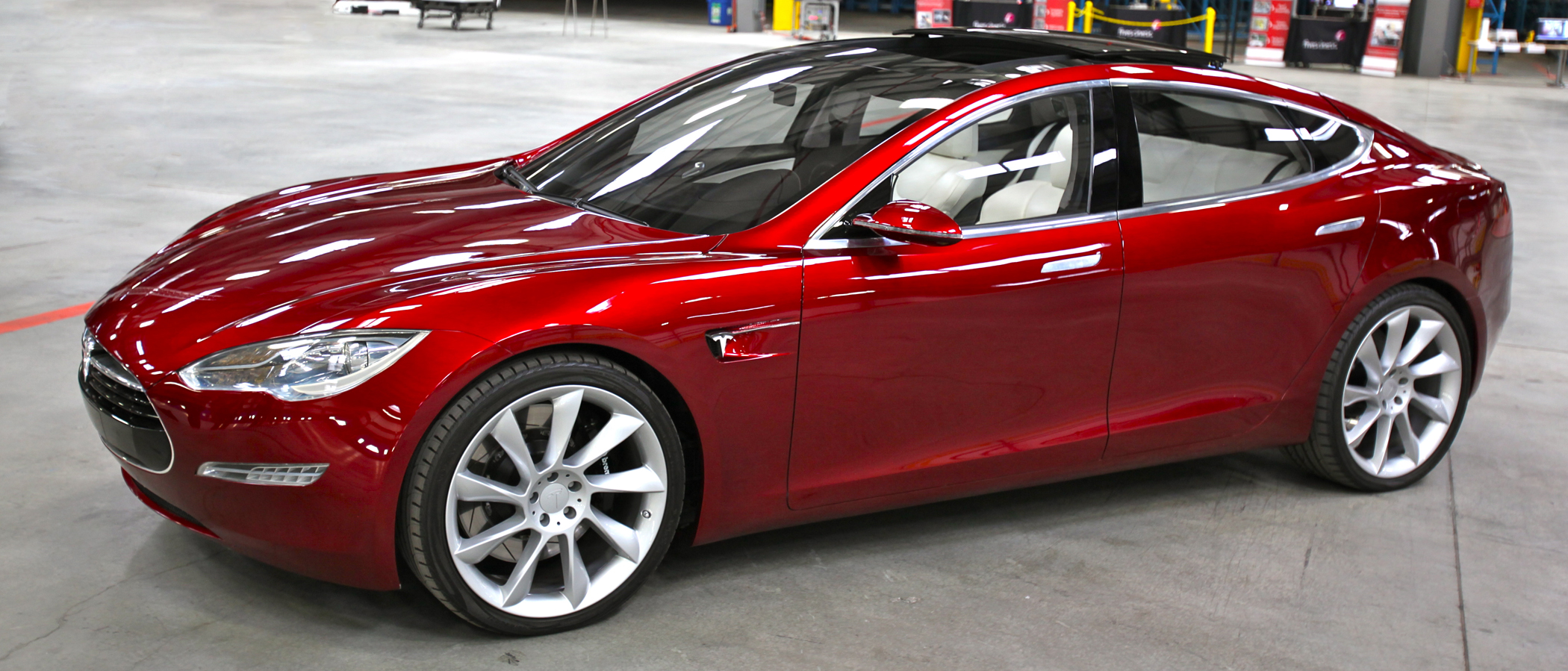 Tesla Model S pre-production prototype